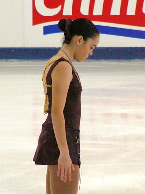 Melissandre Fuentes during her free skate at the 2004 Junior Grand Prix event in Germany